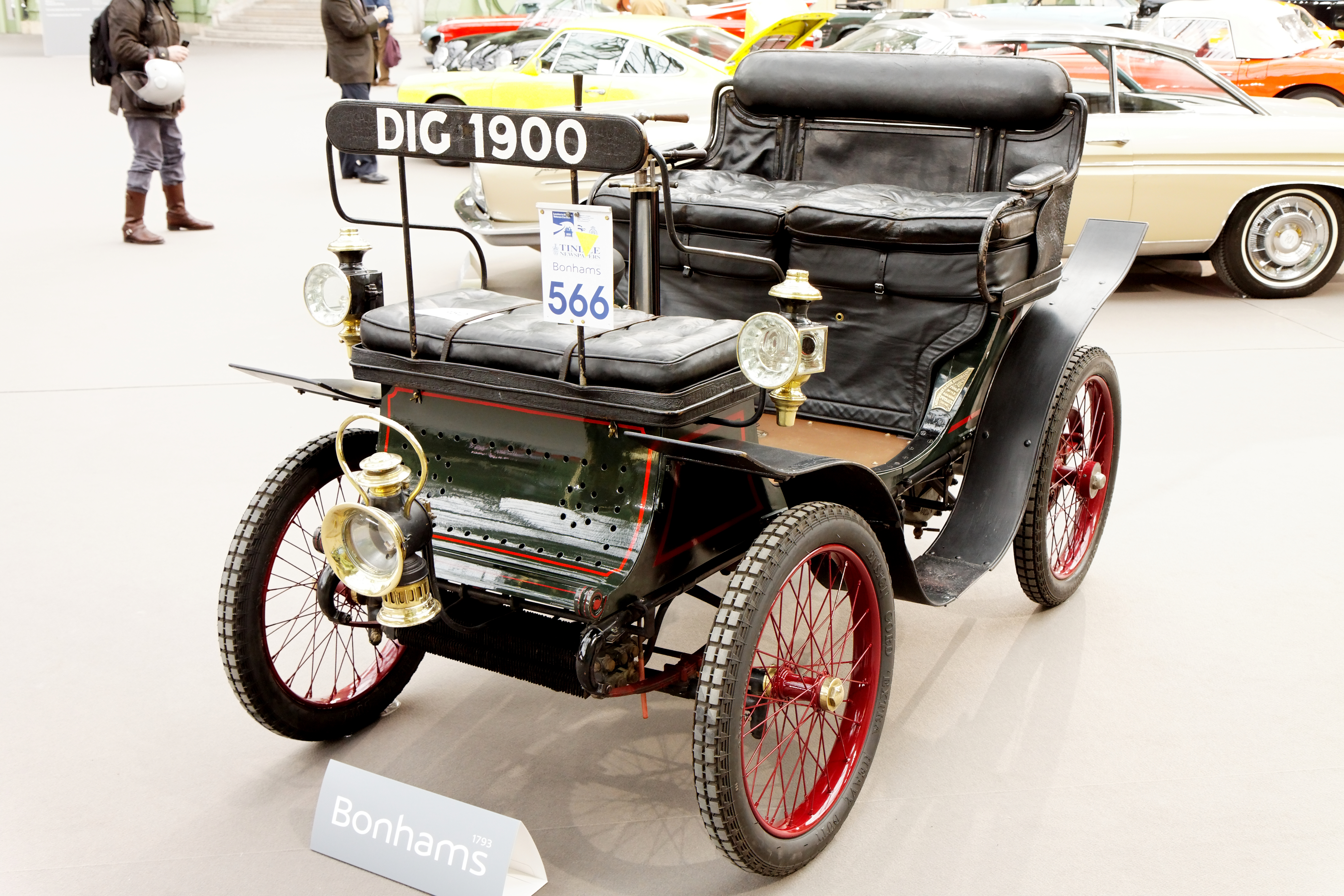 The making of this document was supported by Wikimédia France. (Submit your project!)